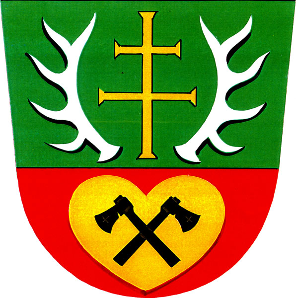 Municipal coat of arms of Podivice village, Vyškov District, Czech Republic.